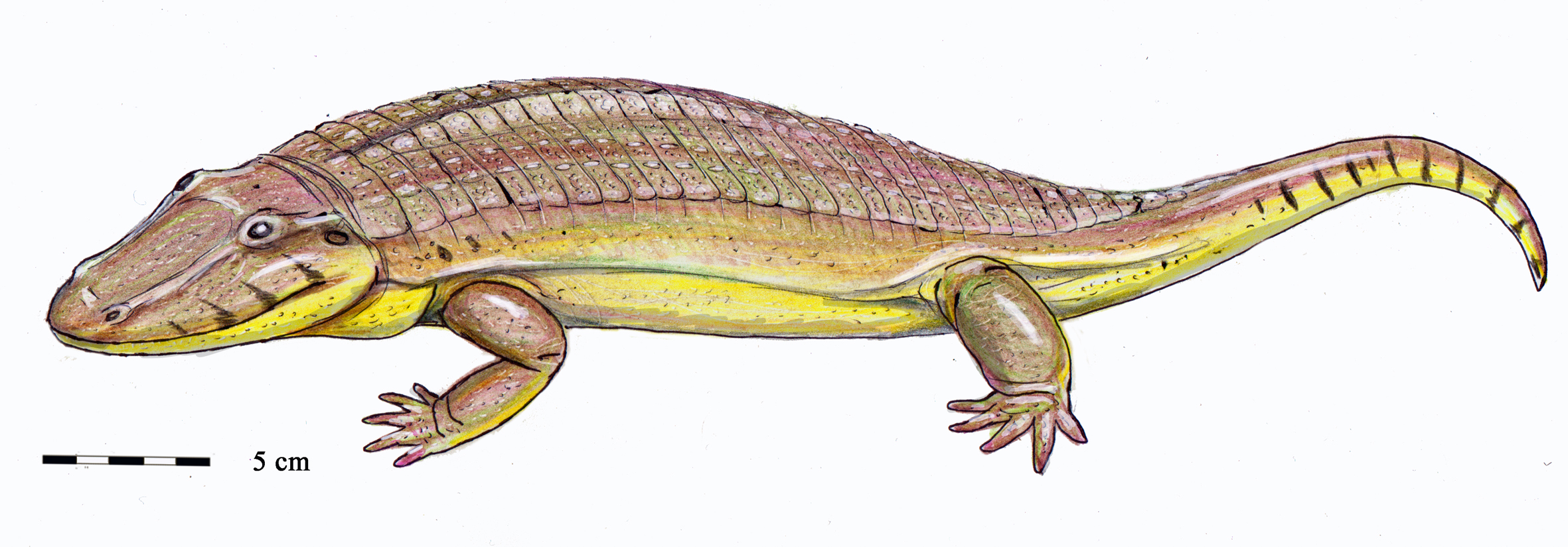 Madygenerpeton pustulatus, relict chroniosuchian from middle and upper Triassic deposits of Madygen Formation of Kyrgyzstan